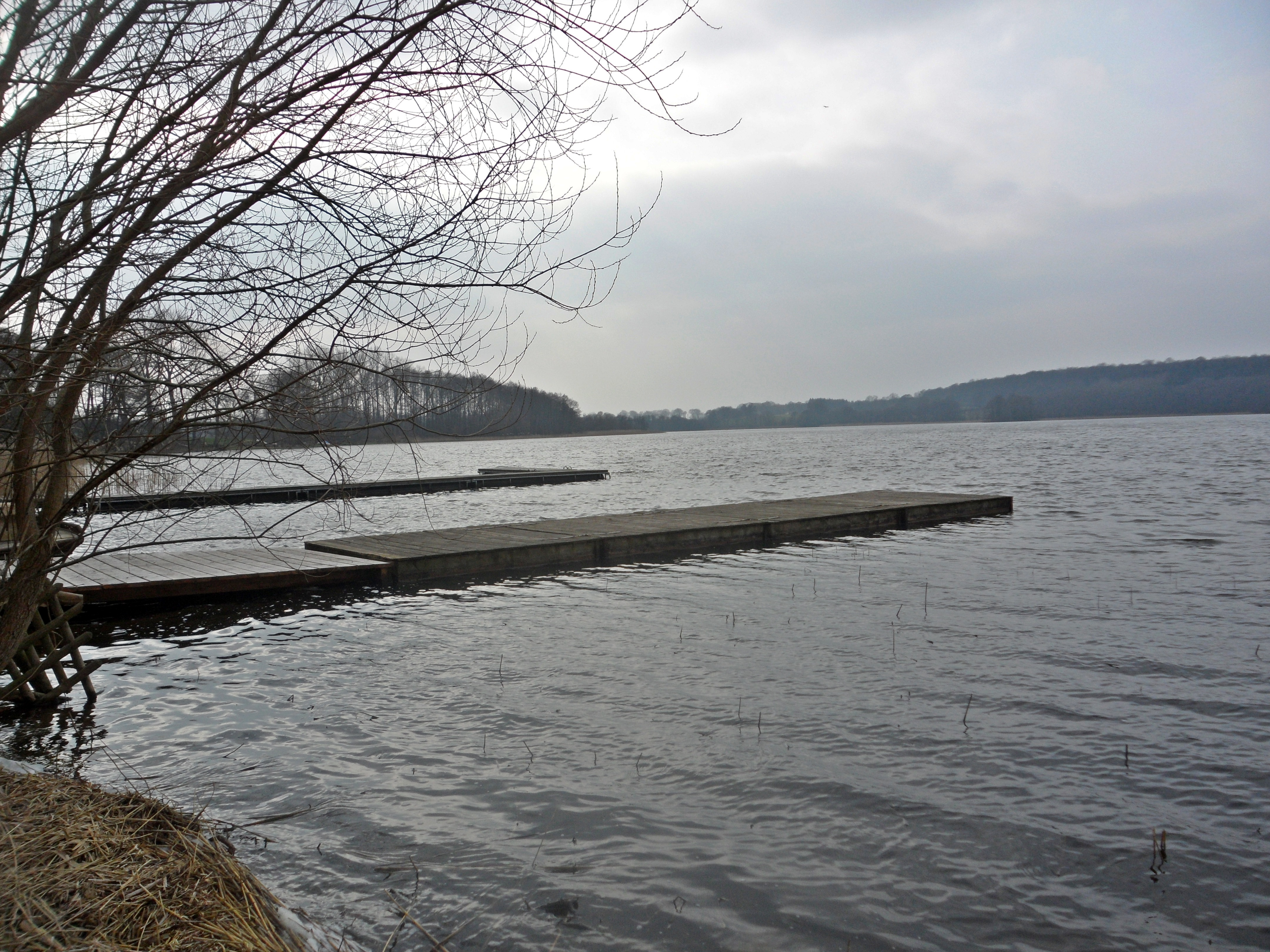 Belauer See in the village Belau